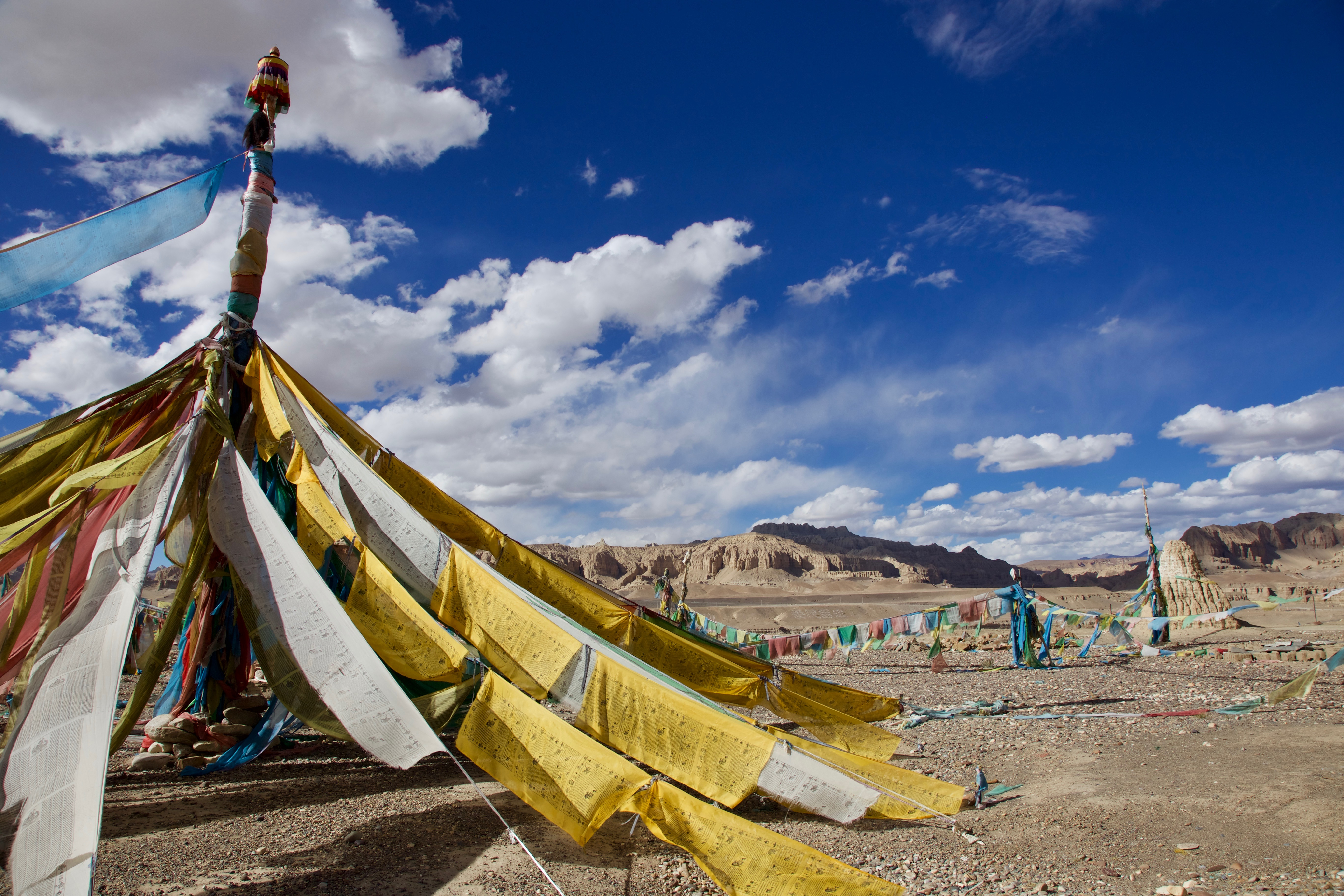 Prayer flags in Thöling capital of former Guge kingdom, Tibet